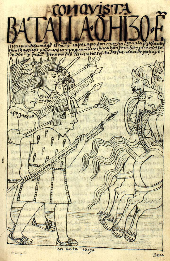 Guaman Poma’s father, Don Martín Guaman Malqui de Ayala, leads a successful offensive on behalf of the Crown against the traitorous Franciso Hernández Girón and his men.